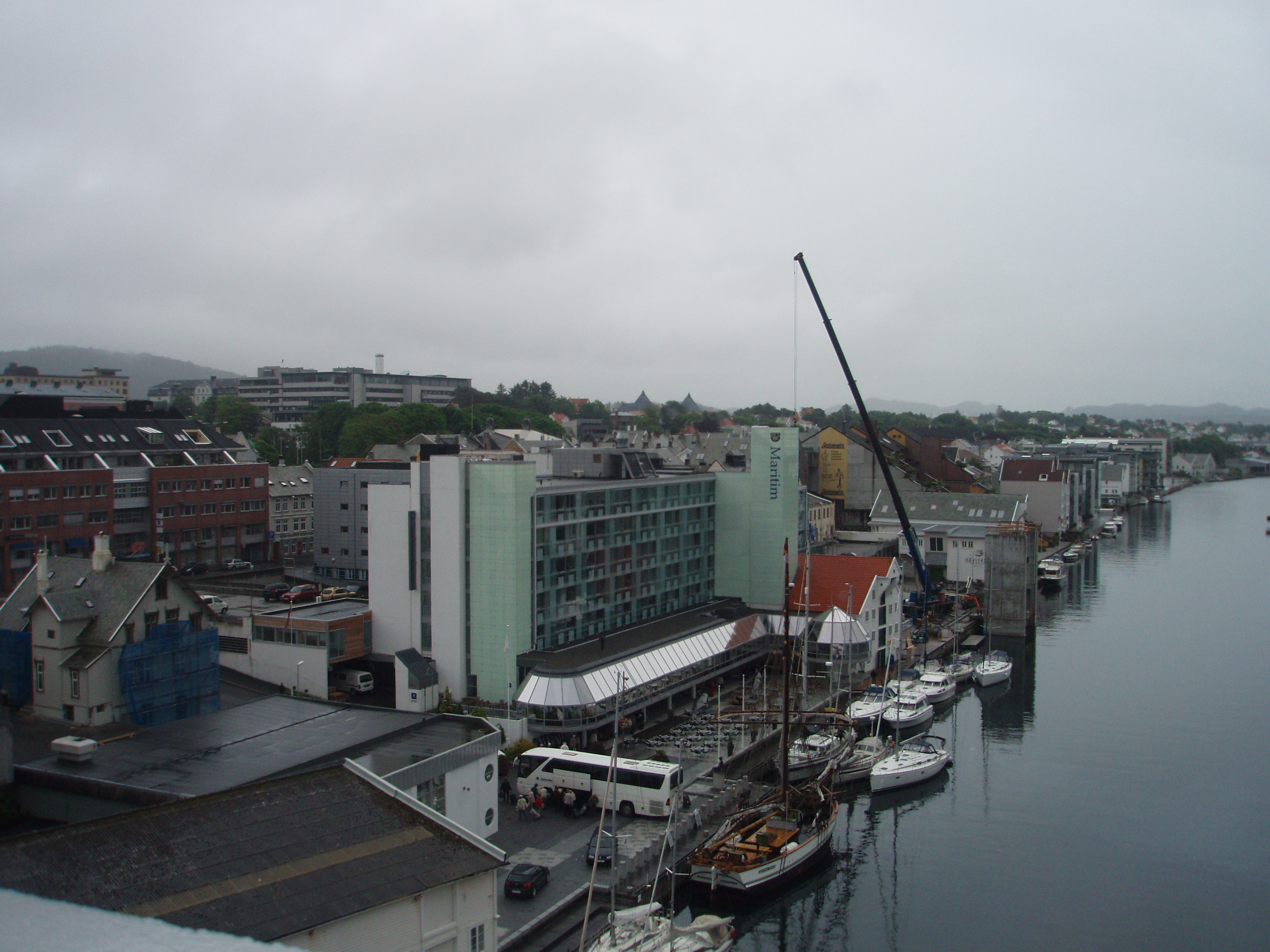 Rica Maritim Hotel in Haugesund, in south-west Norway